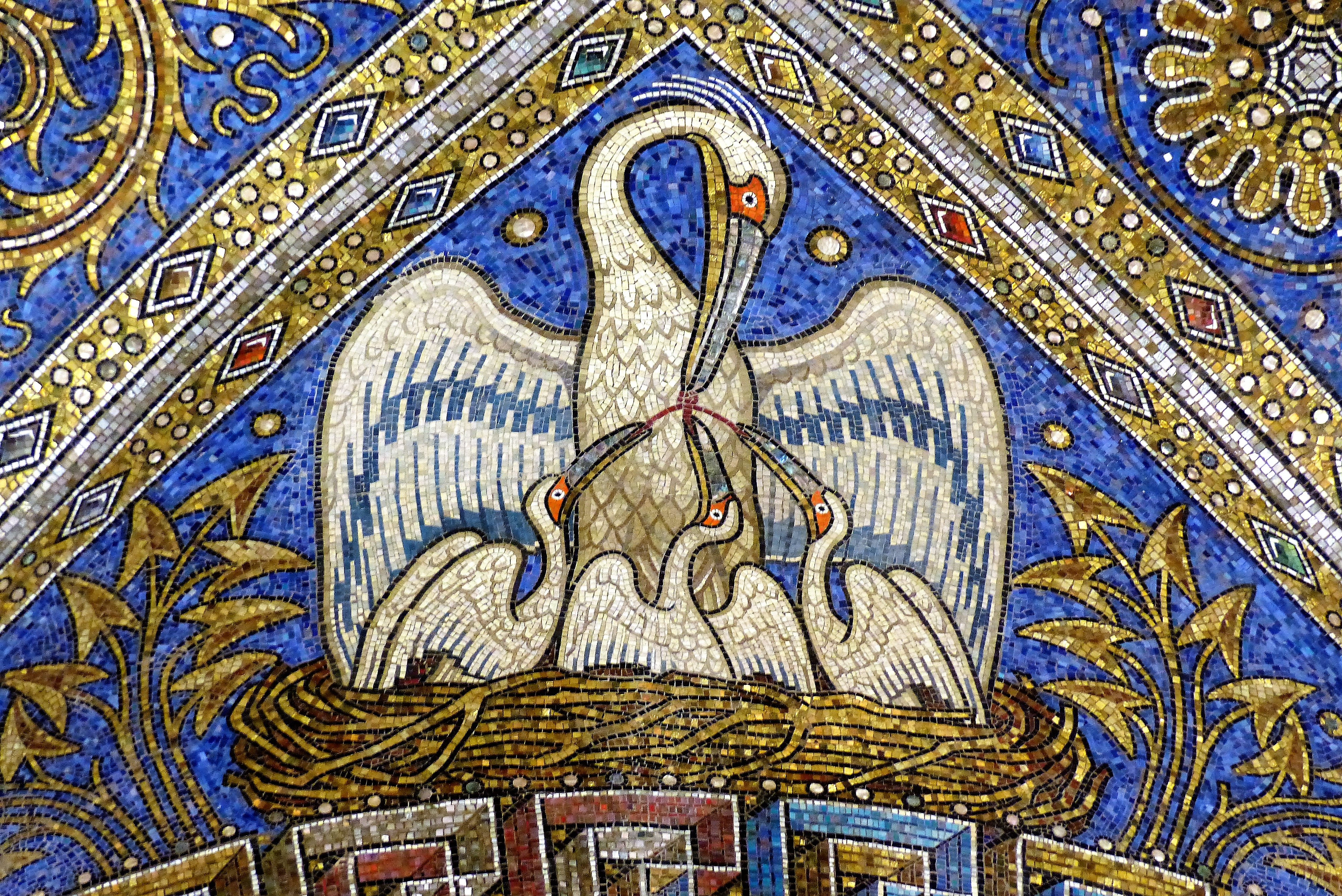 The Aachen cathedral, North Rhine-Westphalia, Germany.